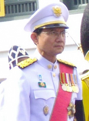 Thai Prime Minister Somchai Wongsawat march in the royal procession in honour of the late Princess Galyani Vadhana in 15 November 2008.